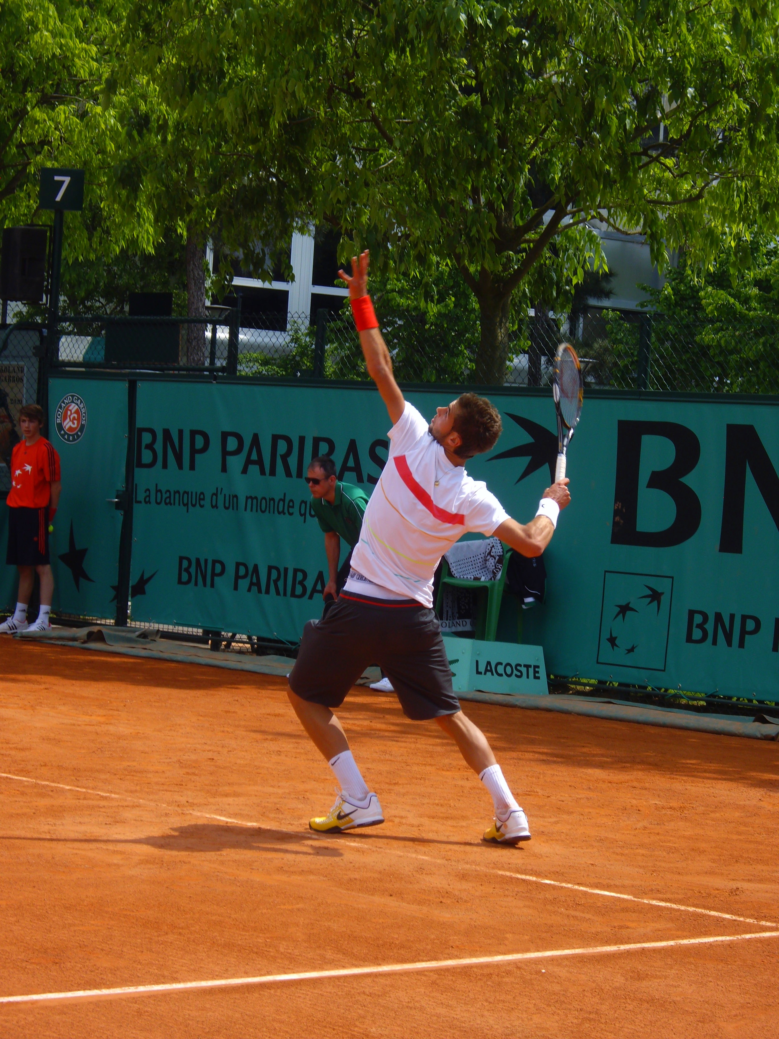 Roland Garros 2010, 1er tour des qualifs